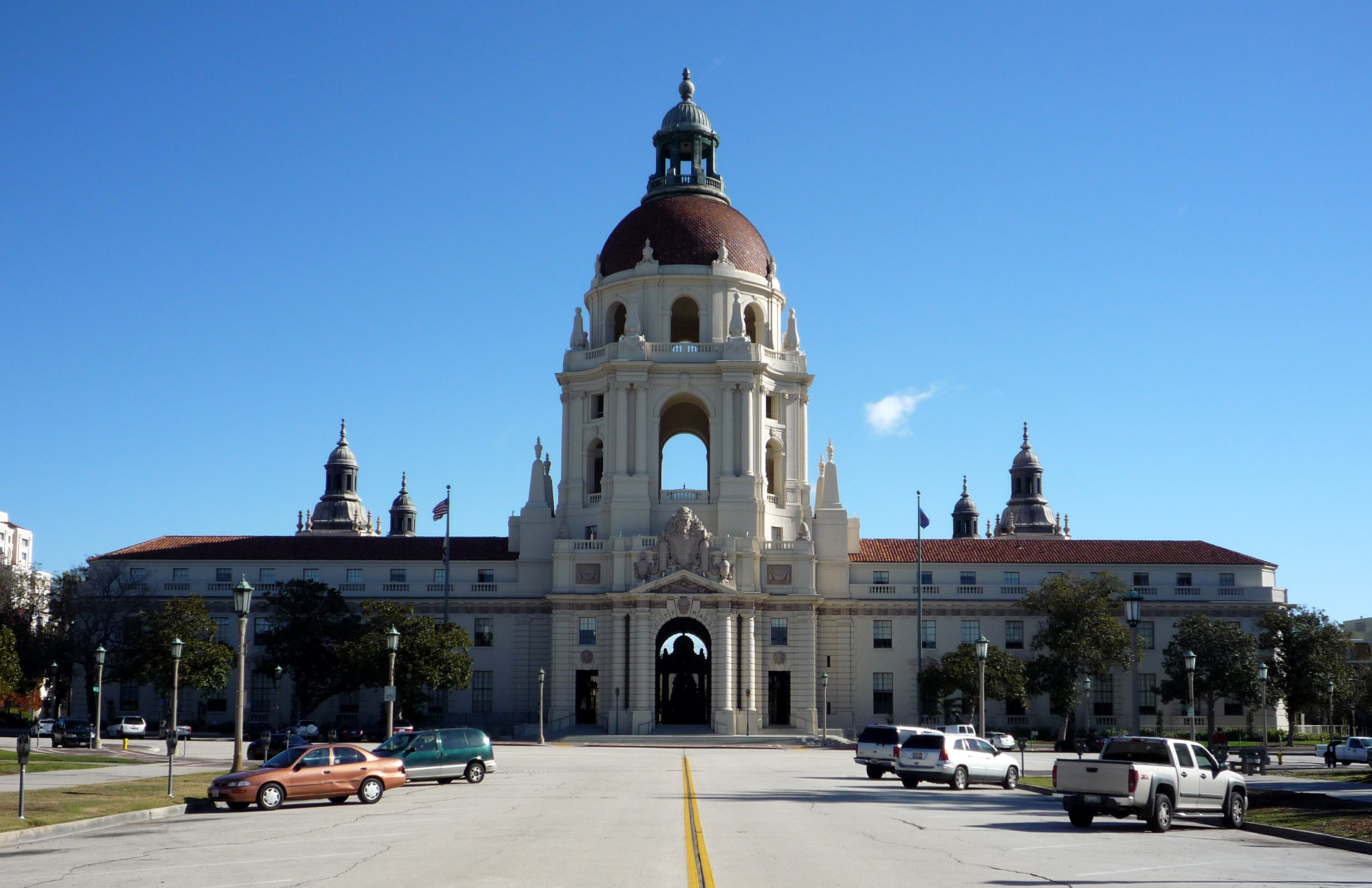 The Pasadena City Hall — at the Pasadena Civic Center in Pasadena, Southern California.